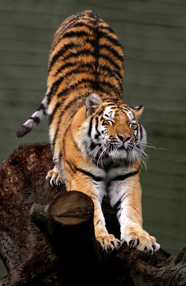 Siberian tiger (Panthera tigris altaica), Aalborg Zoo, Denmark.